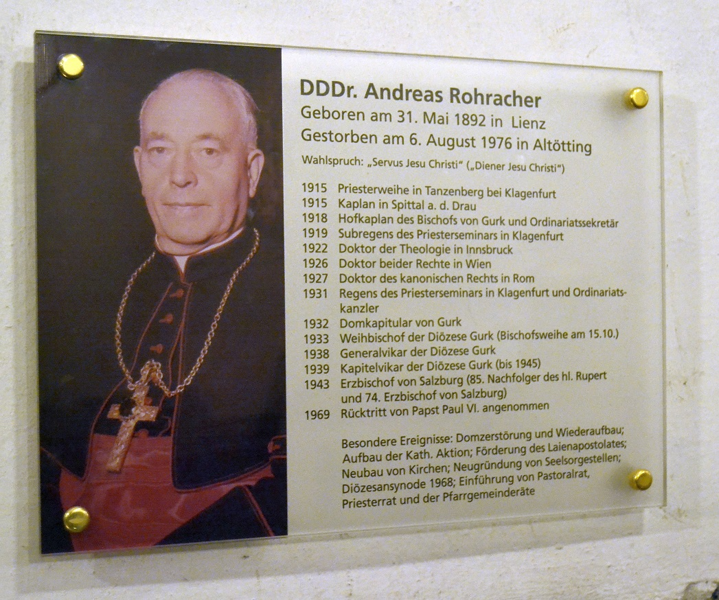 Krypta (Salzburger Dom) room 3: tomb of Archibshop Andreas Rohracher